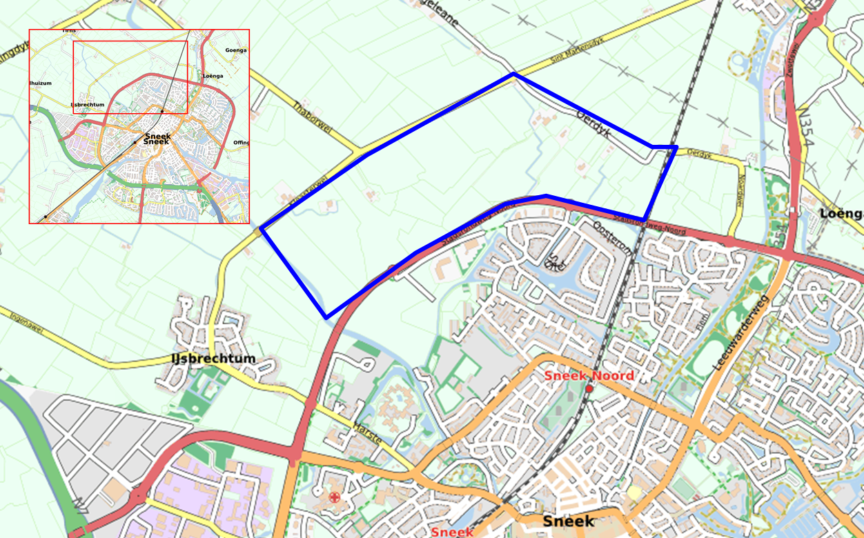 Own reproduction of OpenStreetMap. Harinxmaland-neighbourhood Sneek.